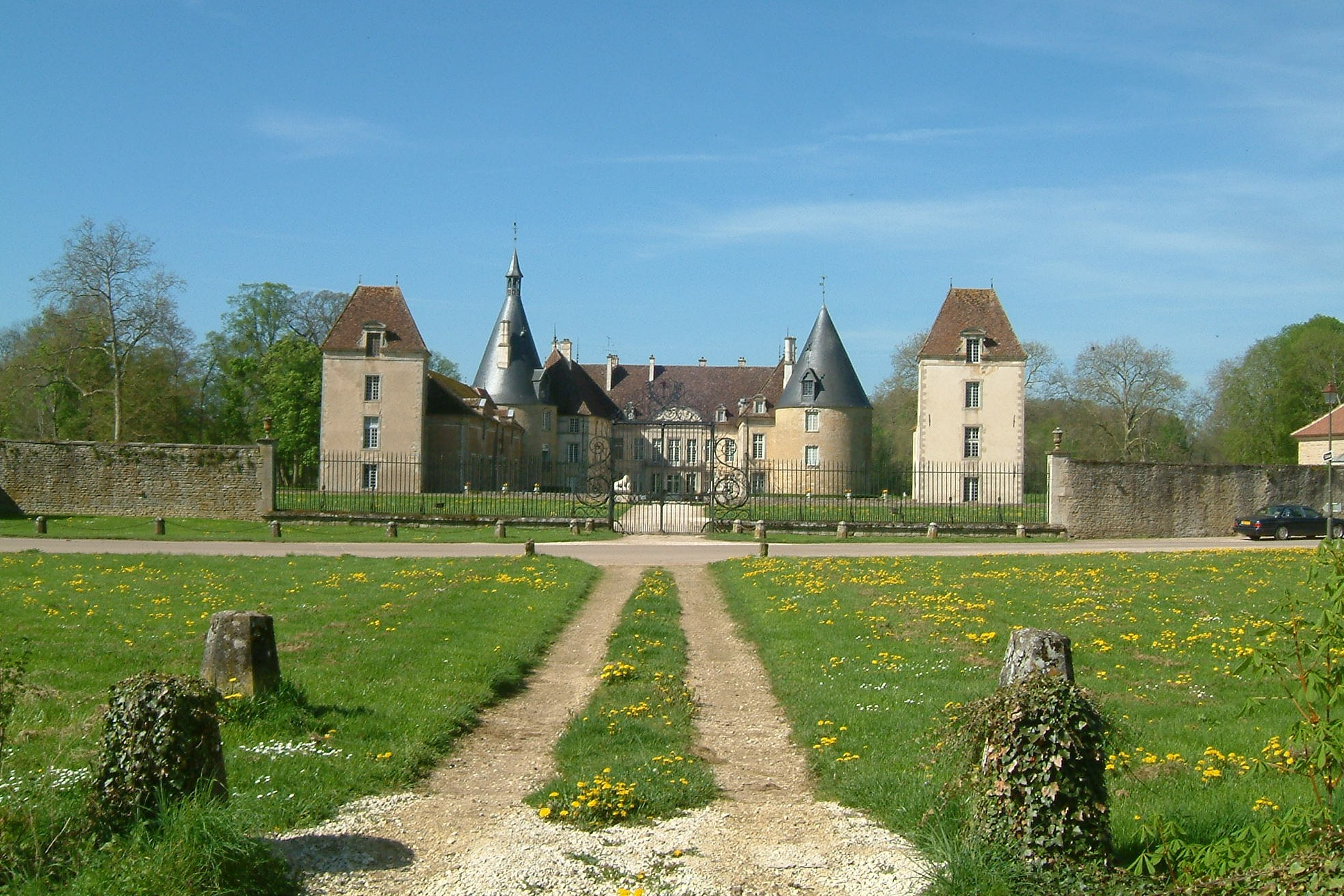 Castle of Commarin, Commarin, Côte-d'Or, Burgundy, France